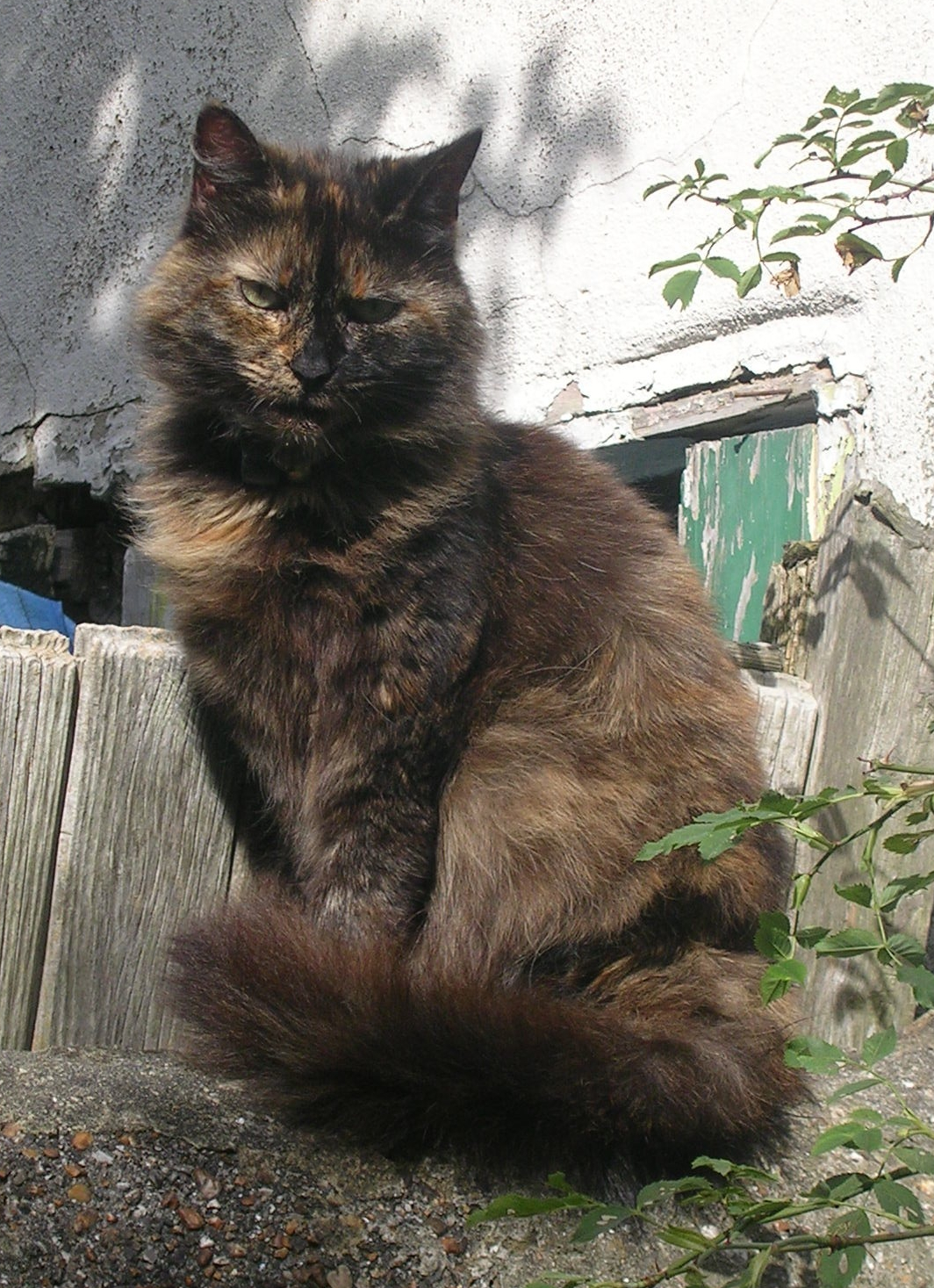 Domestic tortoiseshell cat, 8 years old.